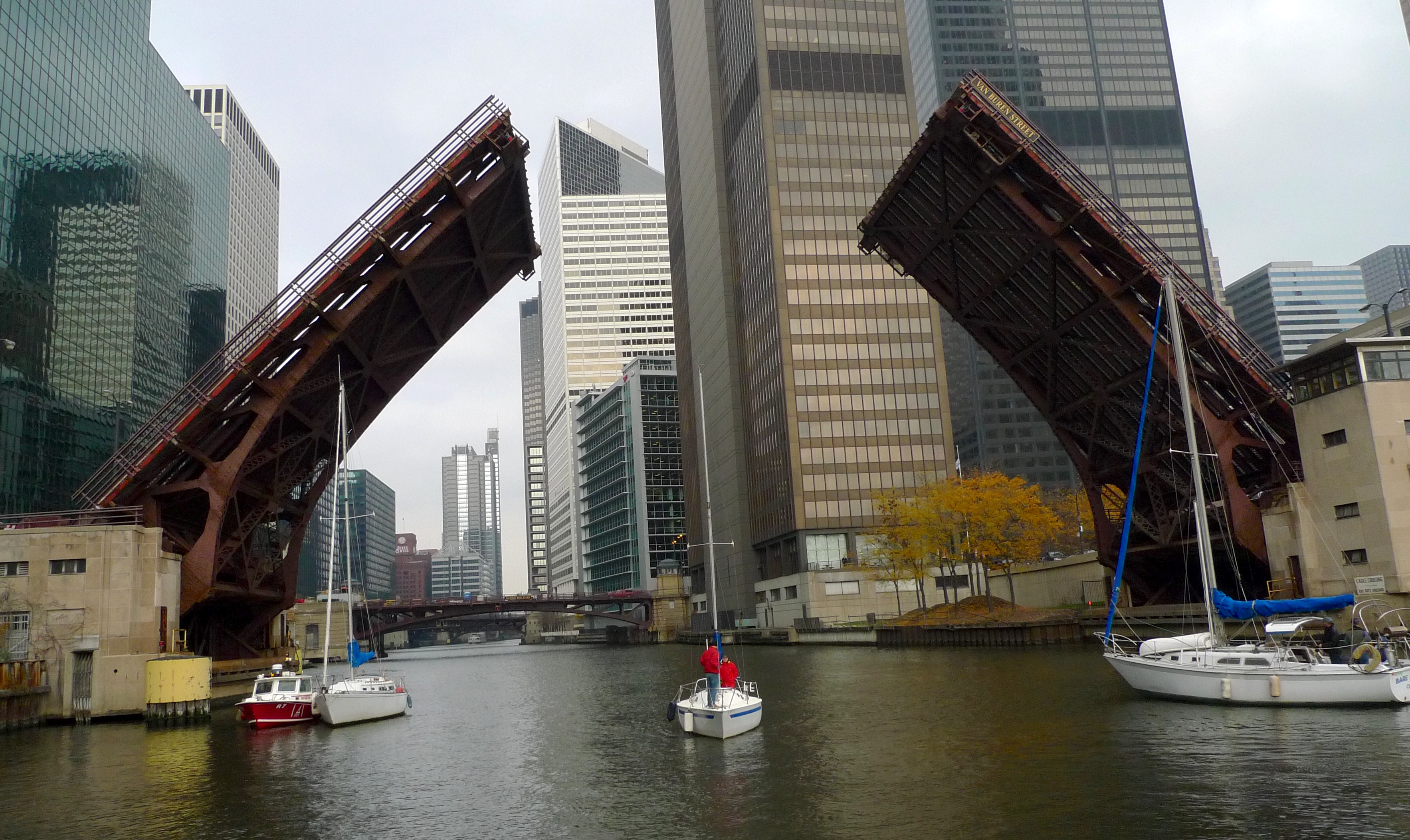 The Van Buren Street Bridge, a 1956 bascule bridge in Chigago, opened for sailboats.